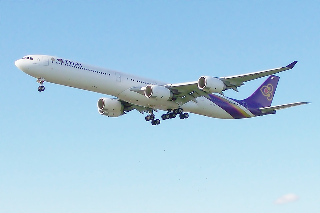 HS-TNF A340-600 Thai